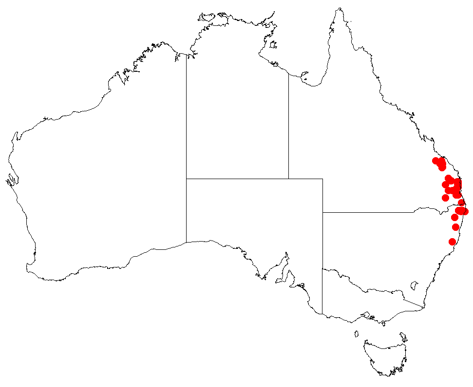 Parsonsia bartlensis Occurrence data for Australia from Australasian Virtual Herbarium downloaded 22 December 2018